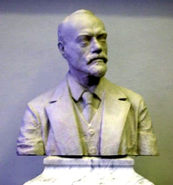 Bust of Nikolay Dubovskoy by V.A. Beklemishev (1861 - 1919) at the Art Department of the Novocherkassk Museum for History of the Don Cossacks